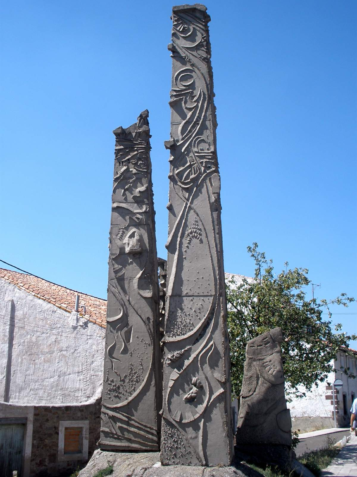 Monumento a Rafael Fontaneda, Aguilar de Campoo